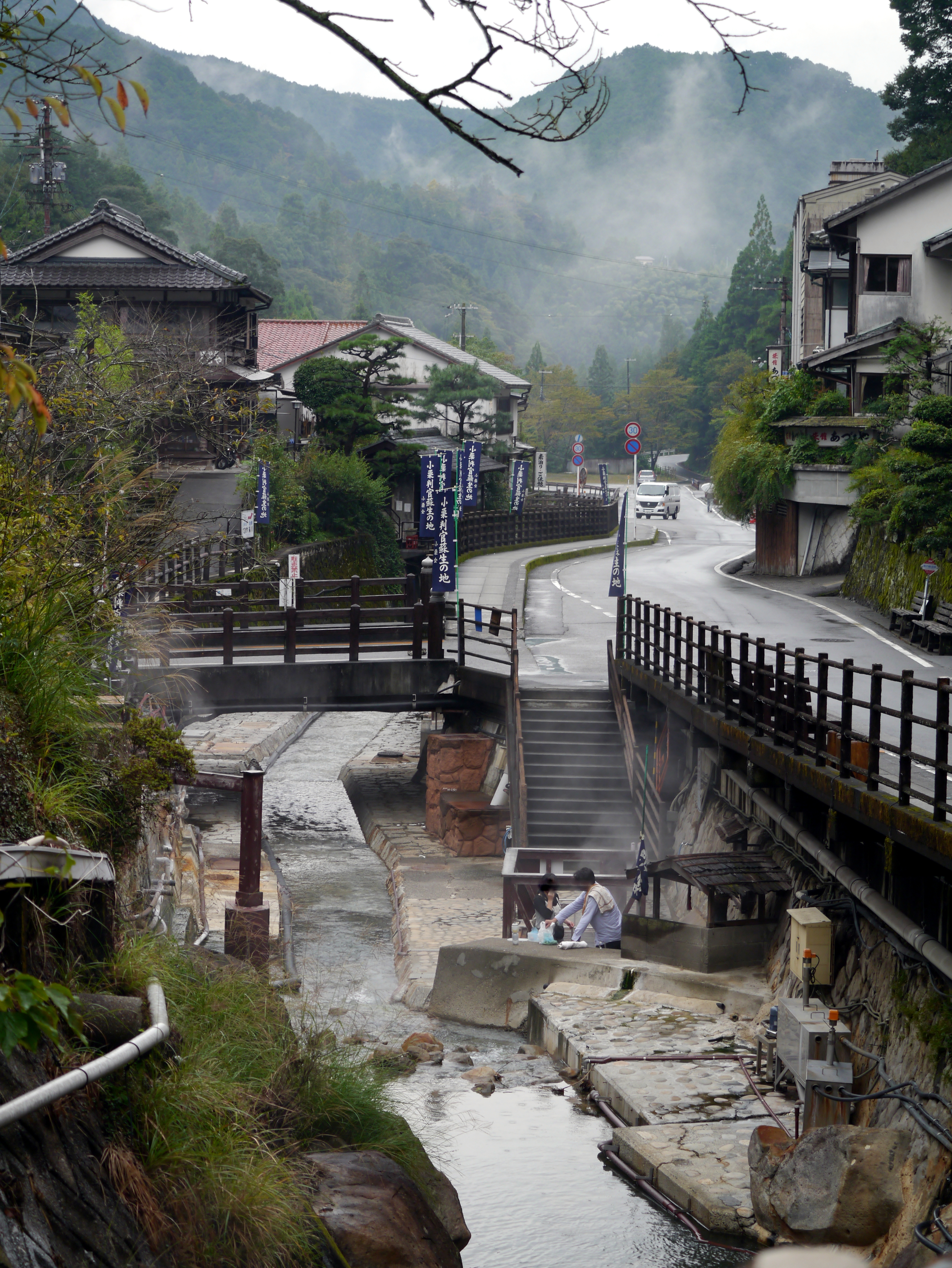 Yunomine Onsen, Tnabe, Wakayama pref., Japan.